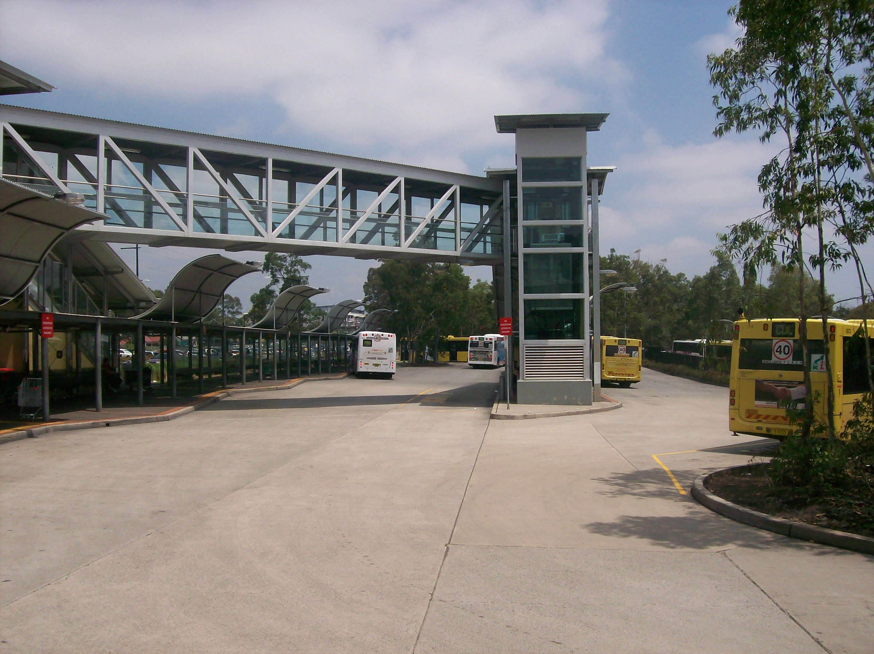 Mt Druitt railway station interchange 2